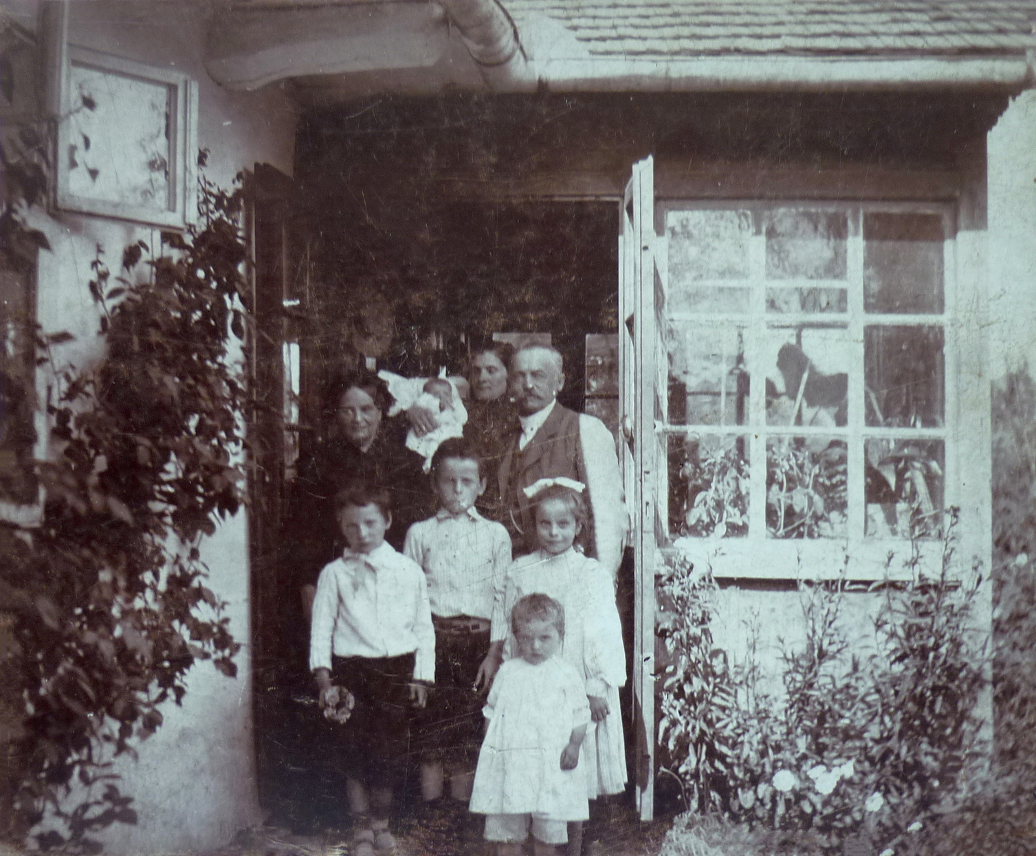 Vetulani family, about 1905. From the left: Helena Kunachowiczowa, Elżbieta of Kunachowicz Vetulani with daughter Elżbieta, Roman Vetulani; below: Tadeusz Vetulani, Zygmunt Vetulani, Maria Vetulani, Adam Vetulani.